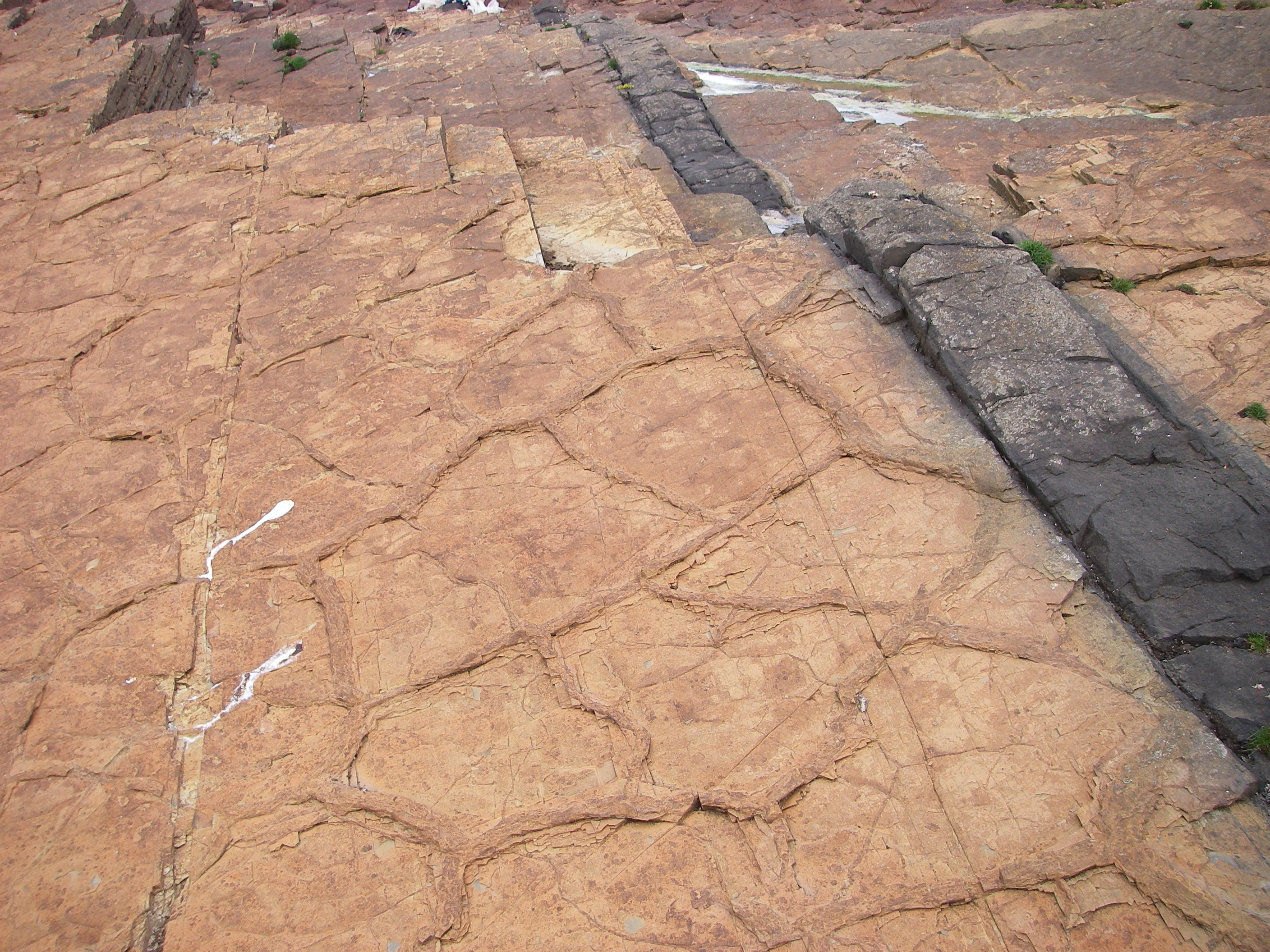 One of a suite of dikes of Permian age cutting a sandstone of the Upper Stromness Flagstone Formation deposited in the Orcadian Basin (Scotland) during the Devonian period. The sandstone shows desiccation cracks. Image from coastal outcrop at Birsay at northwest corner of Mainland, Orkney.